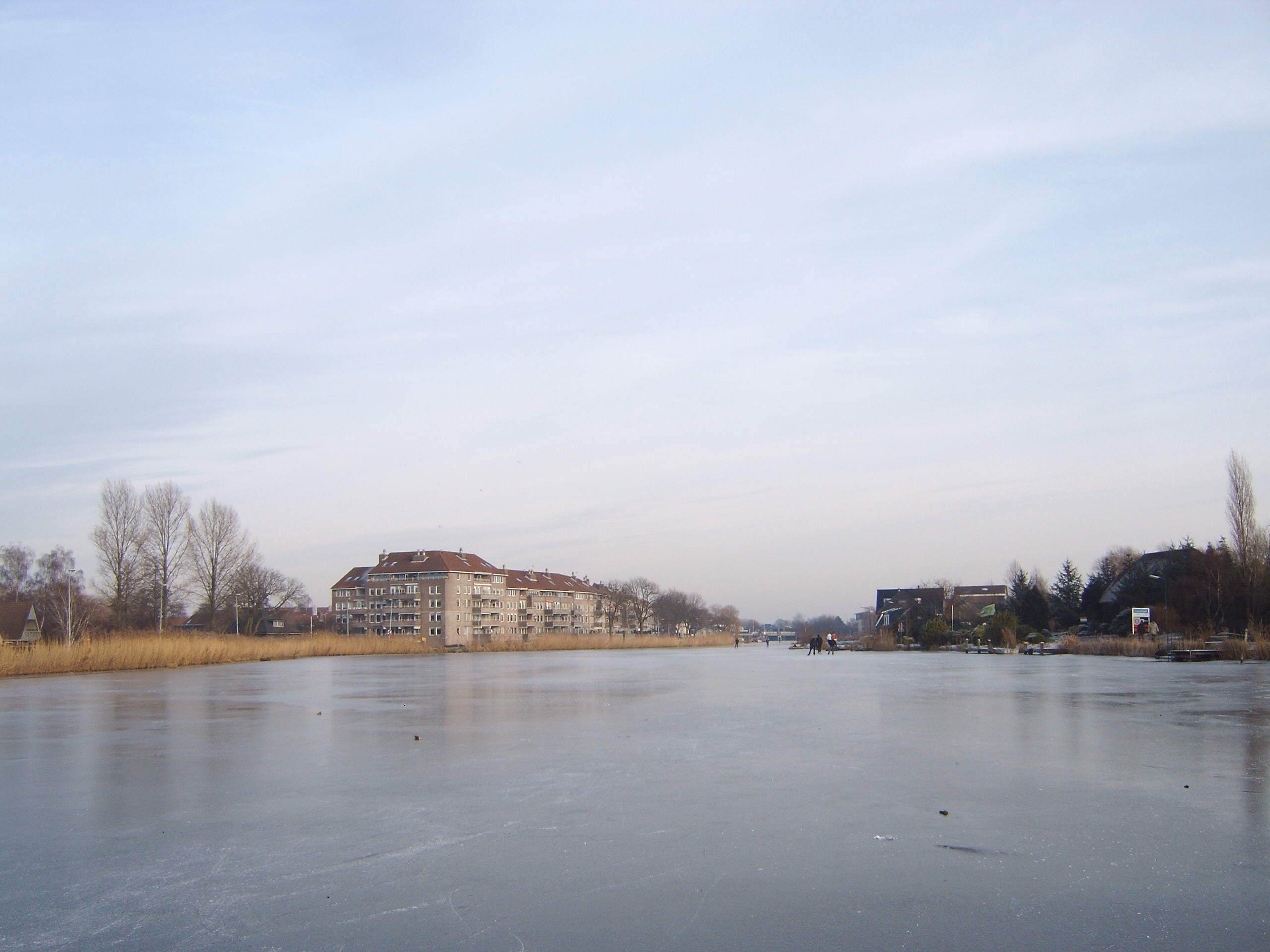 Skaters on the river Amstel at Uithoorn